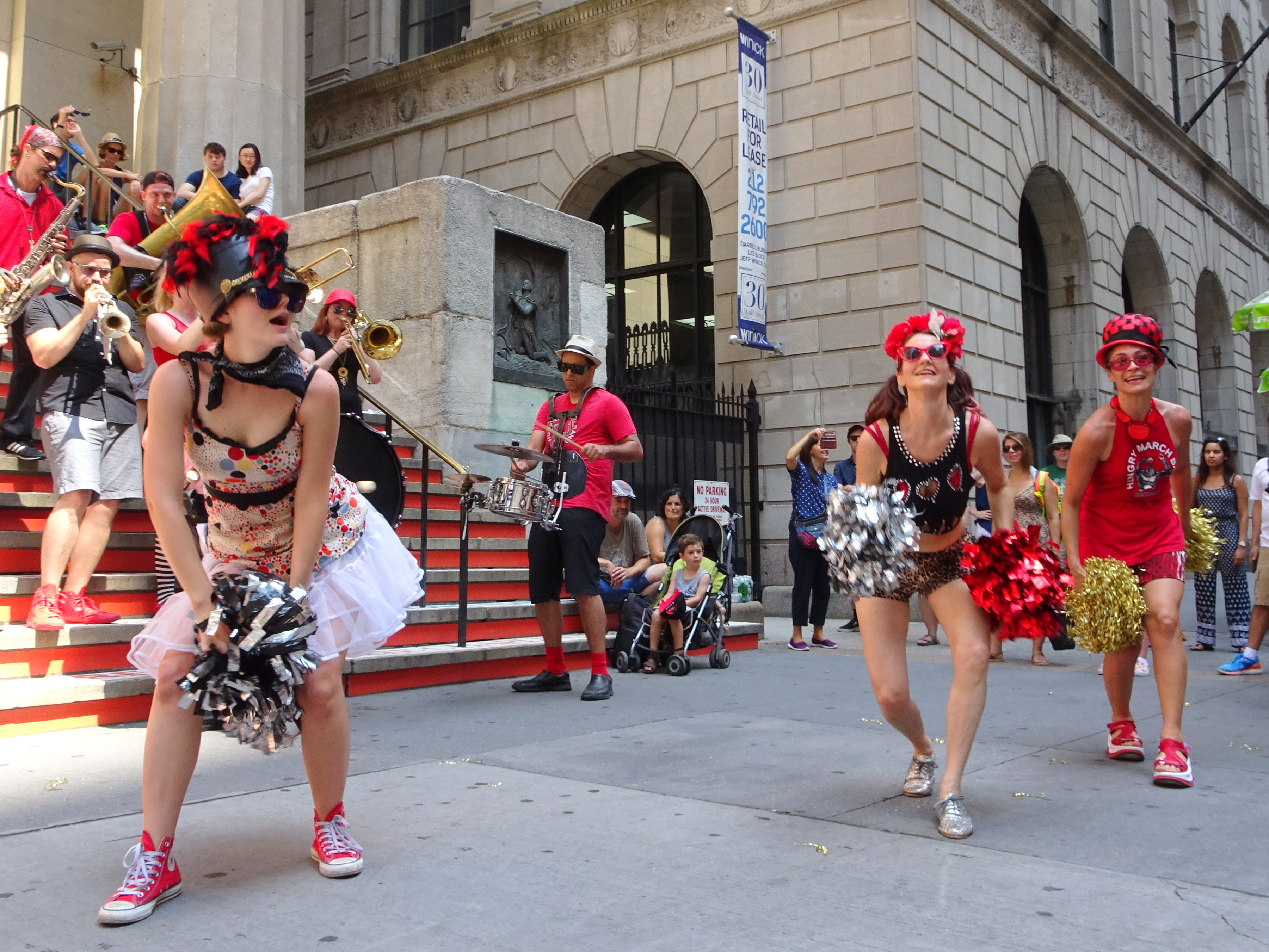 Looking east at Hungry March Band on steps of Federal Hall